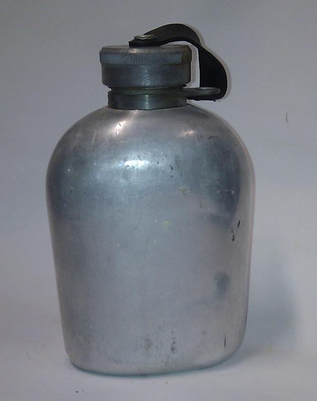 Bundeswehr canteen (old version; here without container)